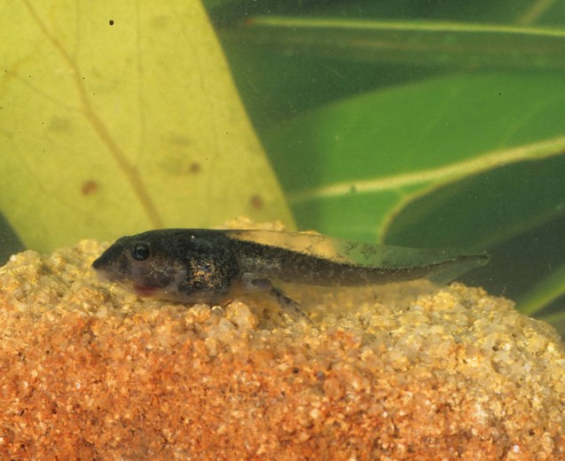 Scaphiophryne brevis